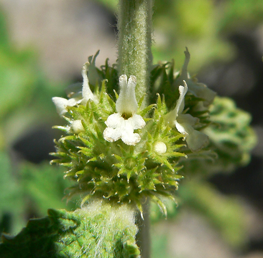 Marrubium vulgare at Potosi Spring, 4 km west of Potosi Mountain's summit, Spring Mountains, southern Nevada (elev. about 1700 m)